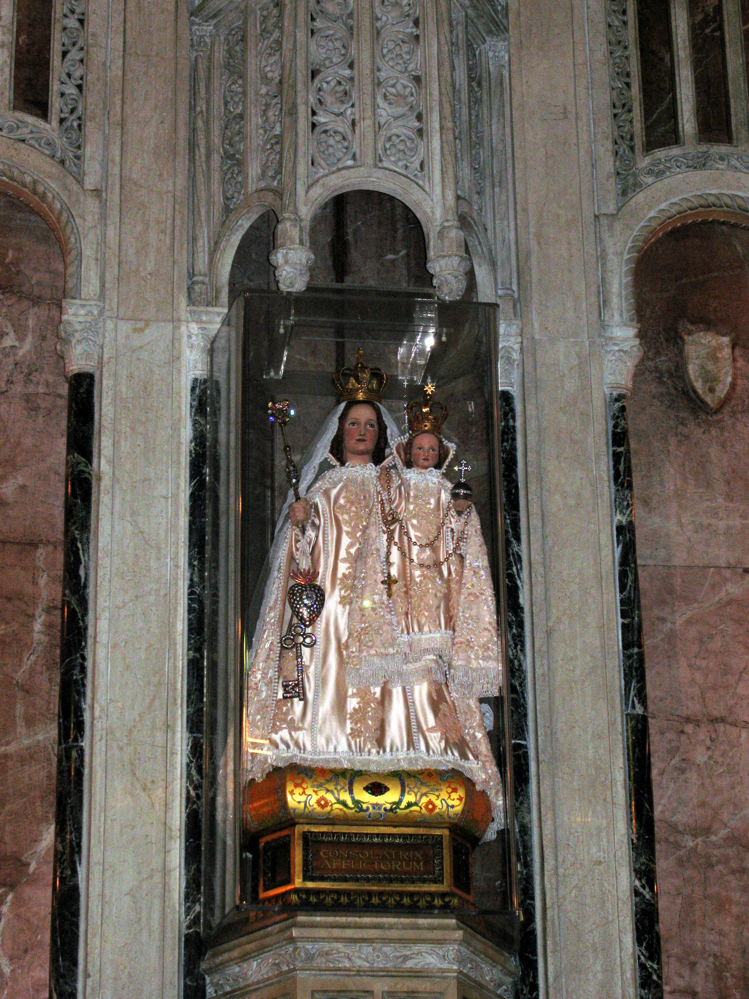 Basilica and National Shrine of Our Lady of Consolation in Carey, Ohio - doll representing the Blessed Virgin Mary and the Christ Child